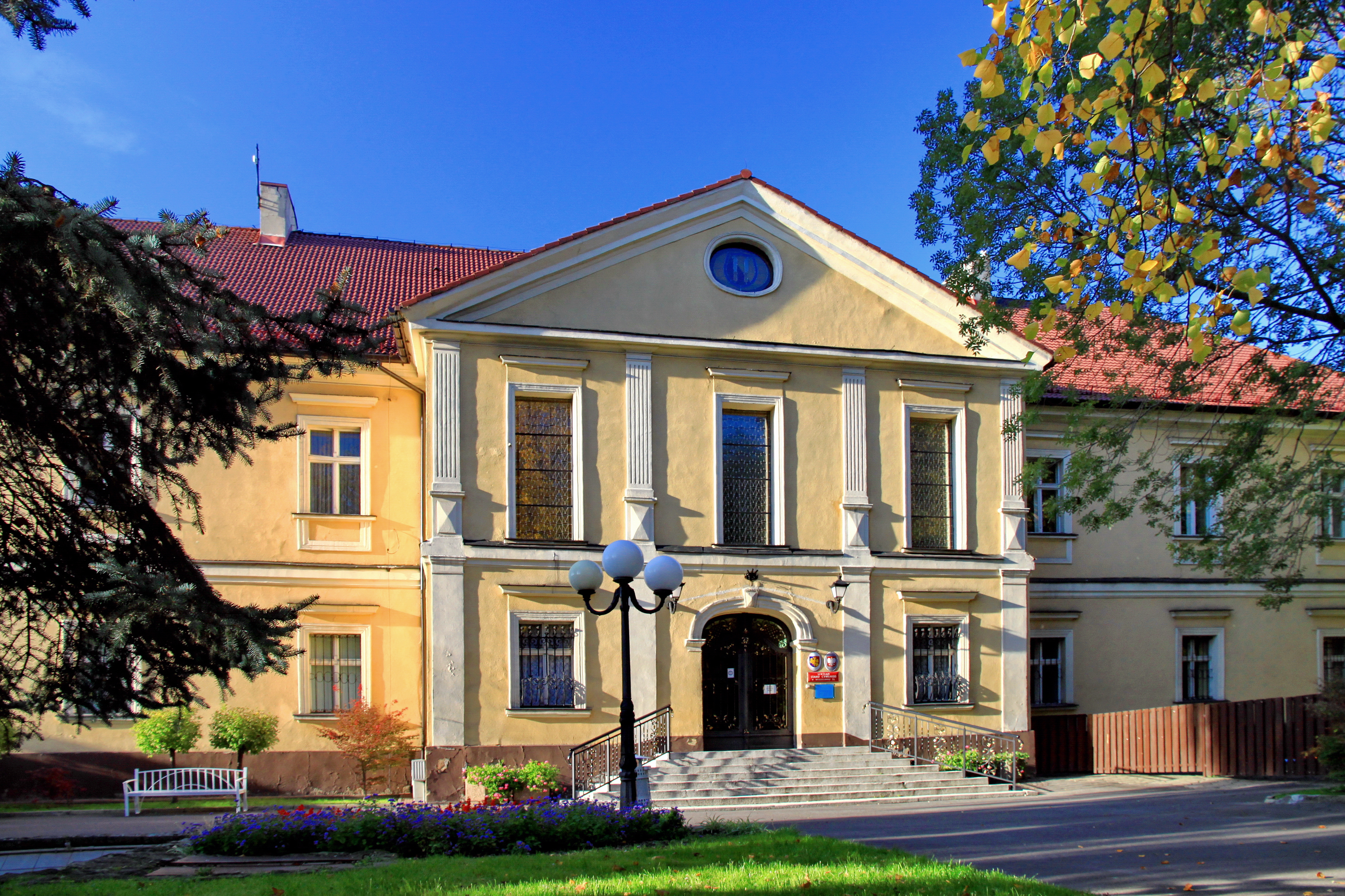 Wodzisław Śląski, palace, now museum, build in 1742-1747, 19th century